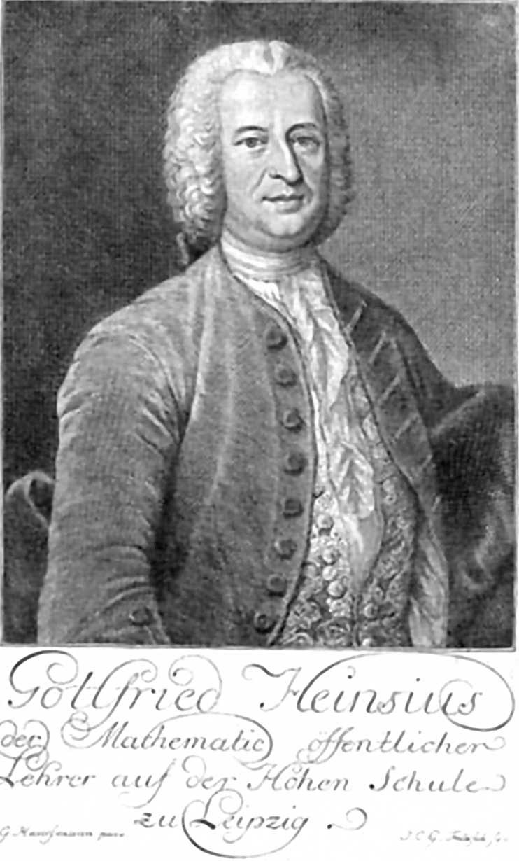 Gottfried Heinsius (1709-1769) Mathematician and Astronomer from Germany